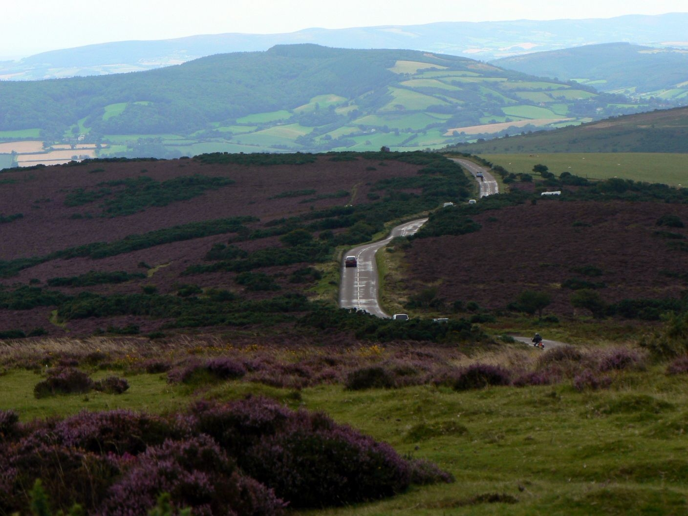 1-The A39 in the Somerset portion of Exmoor National Park